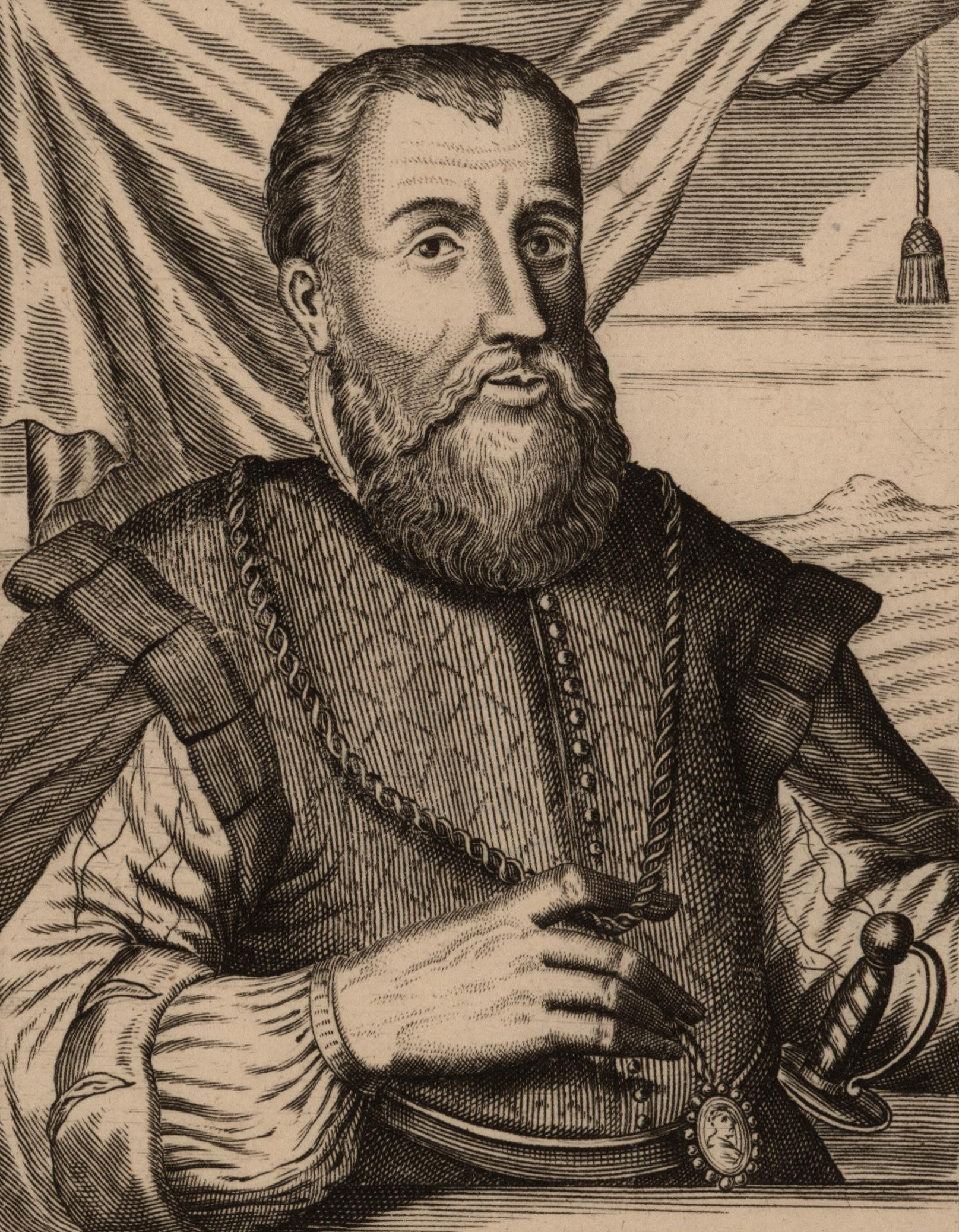 Portrait of Diego Velasquez de Cuellar.